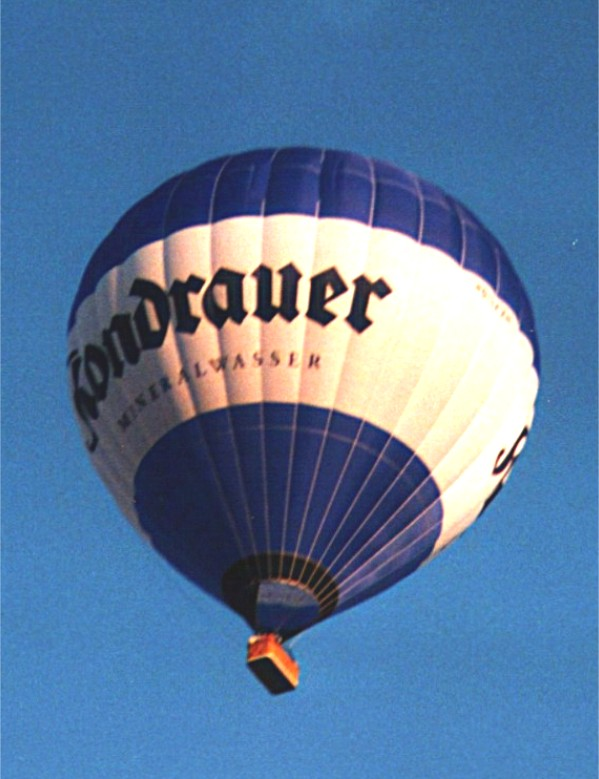 Hot air balloon over Straubing, Bavaria - Kondrauer mineral water